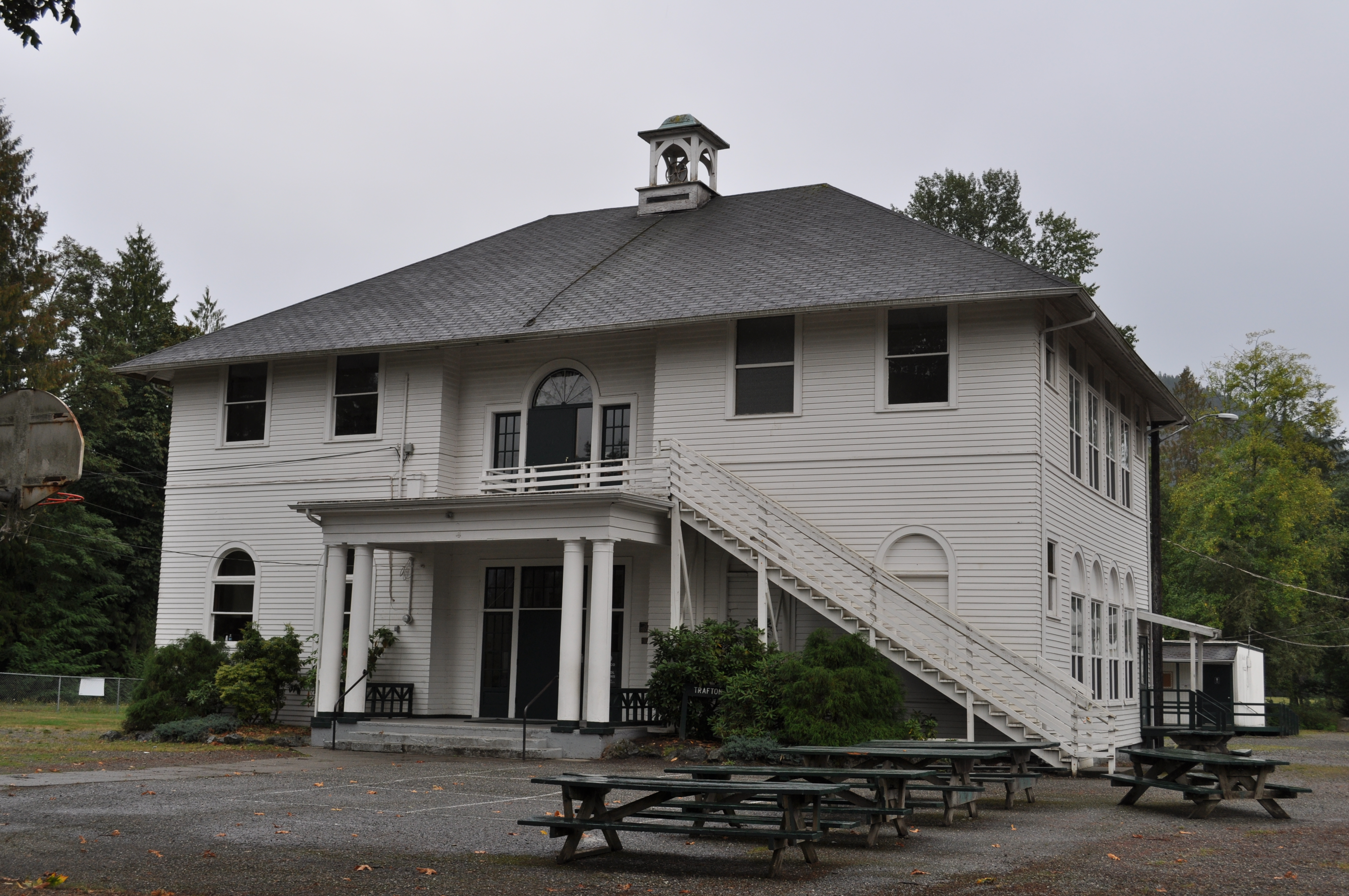 Trafton School, 12616 Jim Creek Rd., in the rural community of Trafton, now part of Arlington, Washington, USA. Listed on the National Register of Historic Places